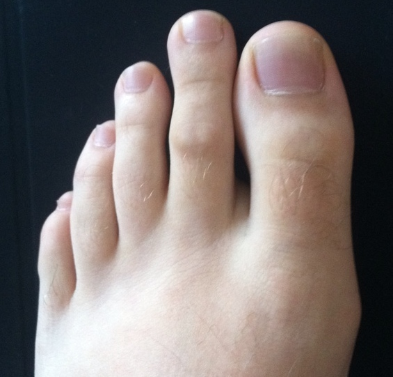 Photograph of a foot illustrating Morton's Toe, where the 2nd toe is longer than the big toe. Other information User took a picture of their foot specifically to illustrate the Morton's toe] page. They were a new user and couldn't upload the picture themself.